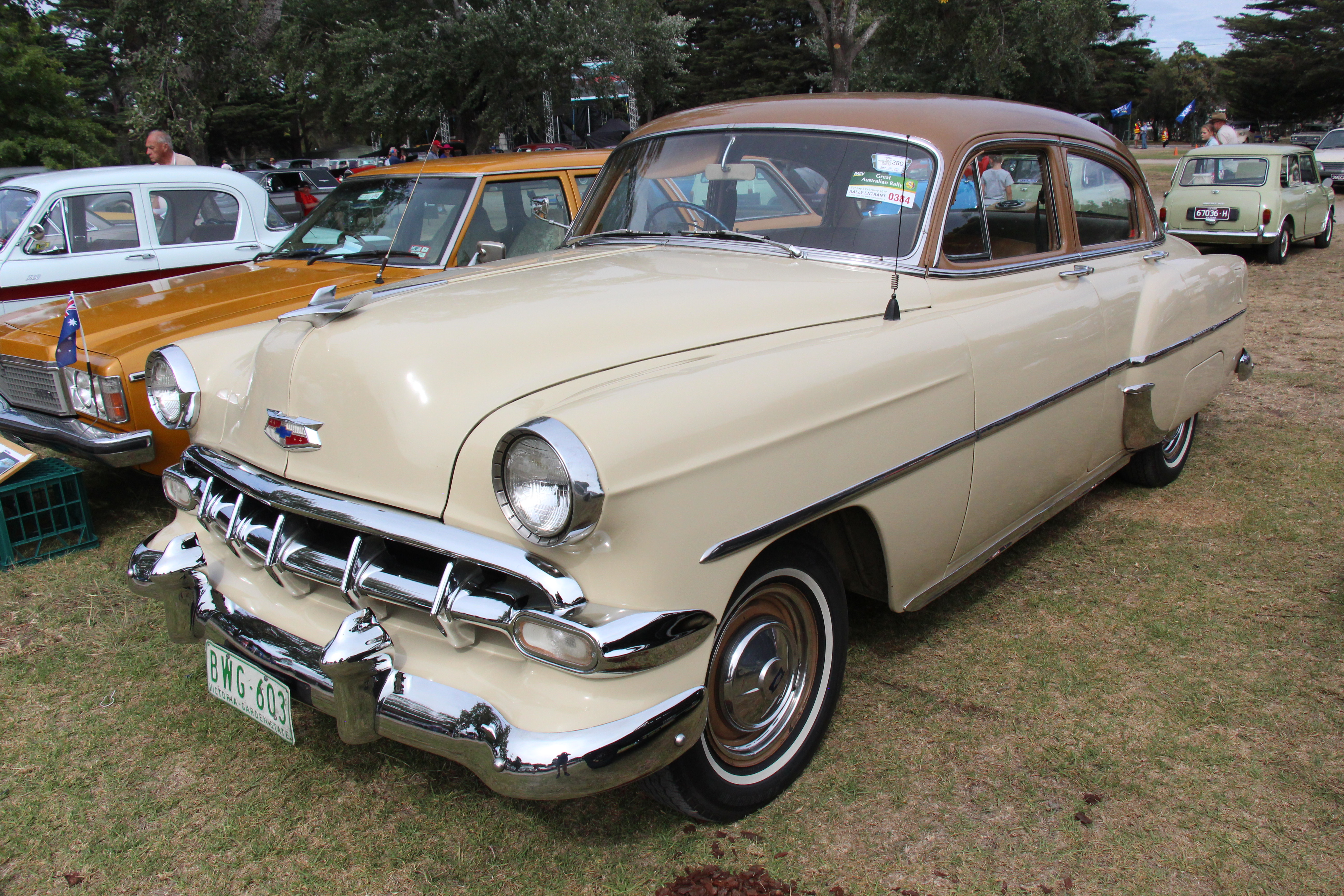 General Motors was founded in 1908 by William Durant, who at the time was the General Manager of Buick (formed in 1899) In 1911, Durant formed a partnership with Belgian-born race-car driver, Louis Chevrolet and the Chevrolet Motor Company was born. Chevrolet introduced a new body in 1953, although still on the same frame and mechanicals of the 49-52 cars, a one-piece curved windshield replaced the prior twin-pane setup. 1954 saw a mild grille and tail light facelift, indicators now oval. (round in 1953). Models were; The base model was the 150 Special; 2 and 4 door Sedan and Wagon Mid spec was the 210 Deluxe (Stainless Steel window surrounds); 2 door Del Ray Coupe, 2 and 4 door Sedan and Wagon Top was the Bel Air (Stainless Steel body moulds with painted flash); now in 2 door Hardtop Coupe, Convertible, 2 and 4 door Sedan and Wagon. The Corvette sports car was introduced in 1953 Chevrolet sedans were also produced in Australia by General Motors using modified American bodies from 1926-68. Engine; 115hp 235 cu in 6 cyl blue flame